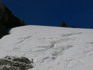 This is a photo of the Sahale Glacier from the Top of Sahale Arm.